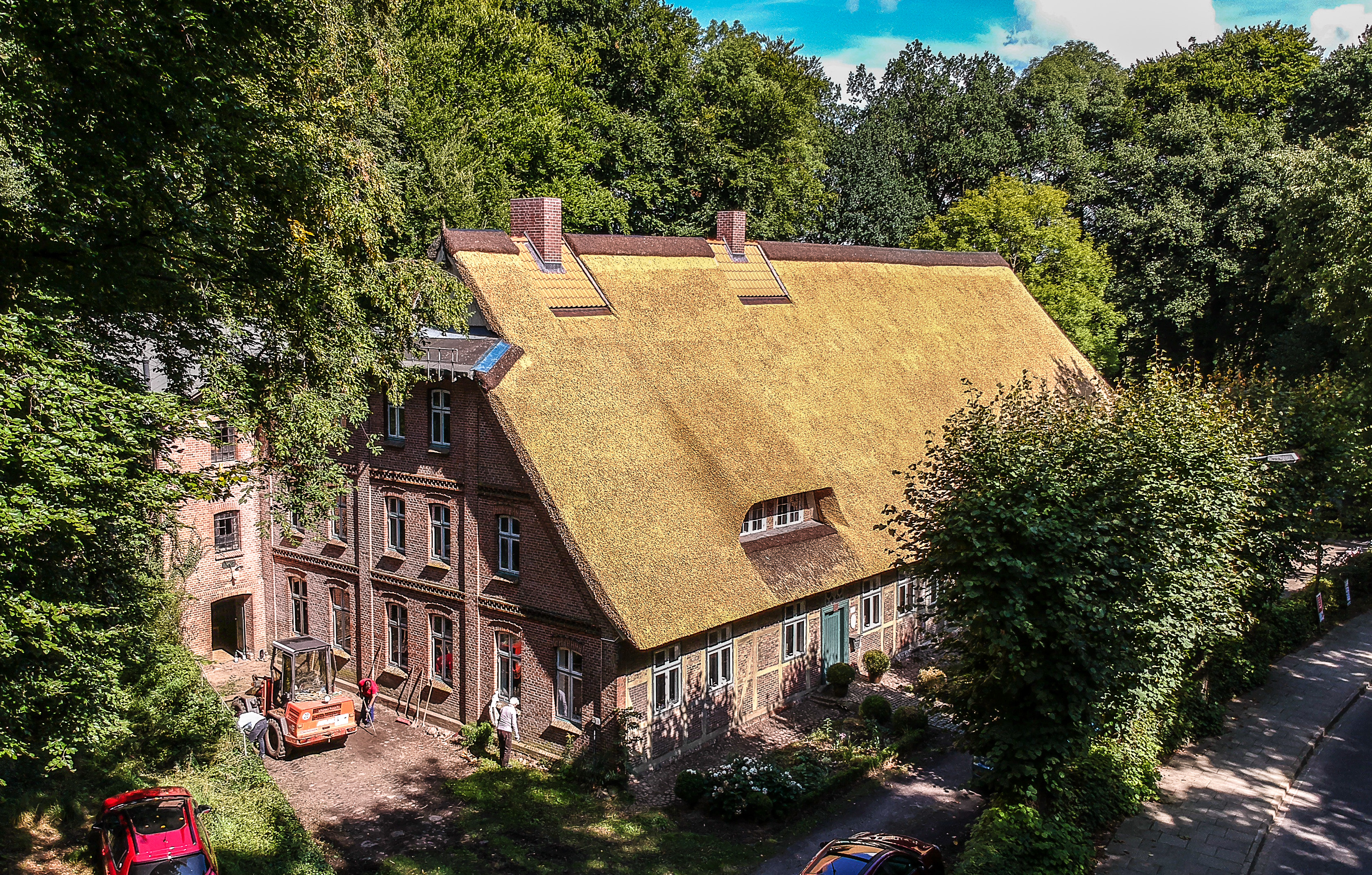 Haupthaus und das links angeschlossene Mühlenhaus